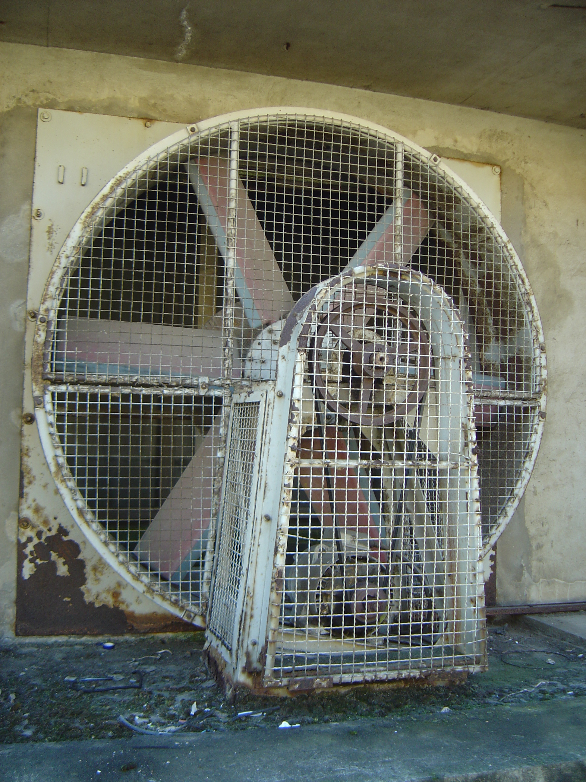 ventilation fan on the linear accelerator building at Orsay